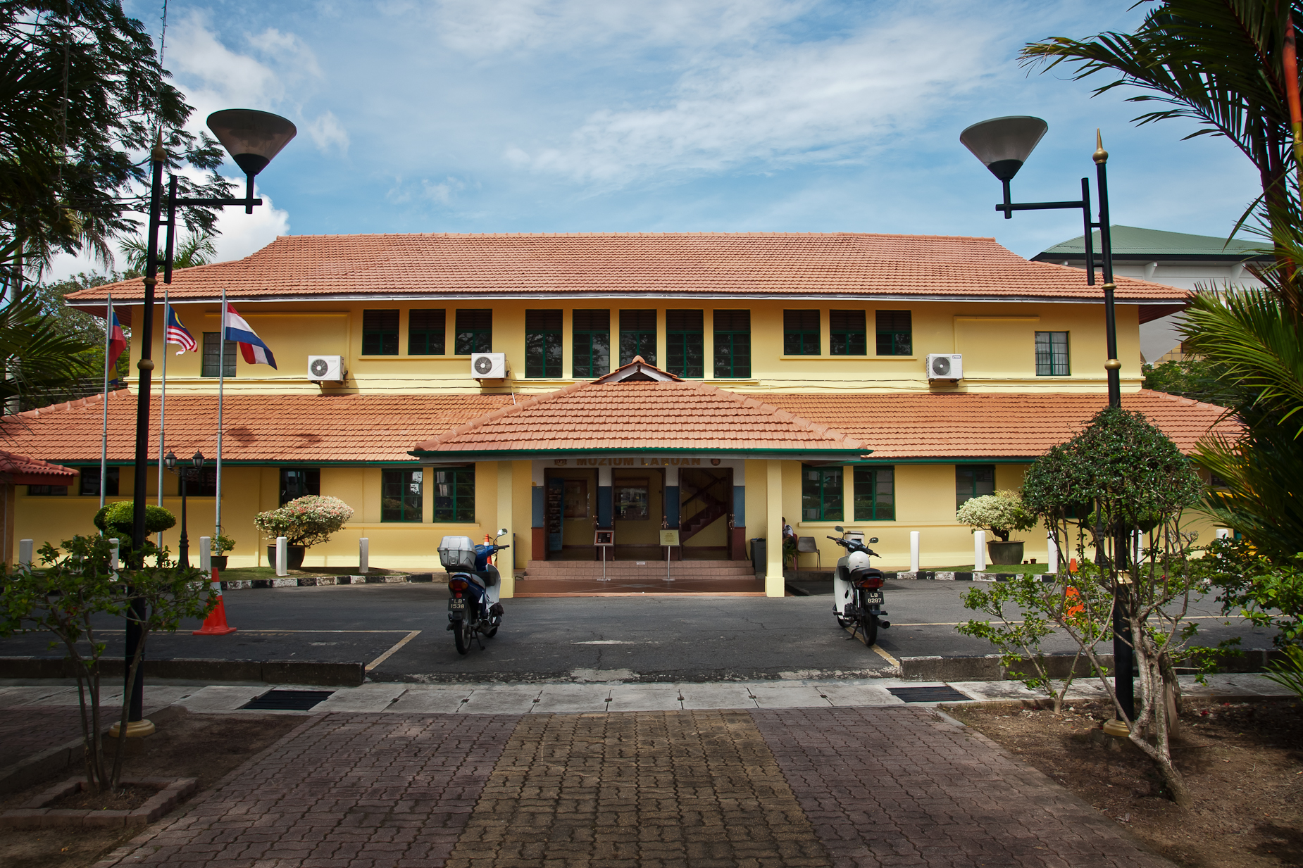 Labuan, Malaysia: Former District Office, today Labuan Muzium